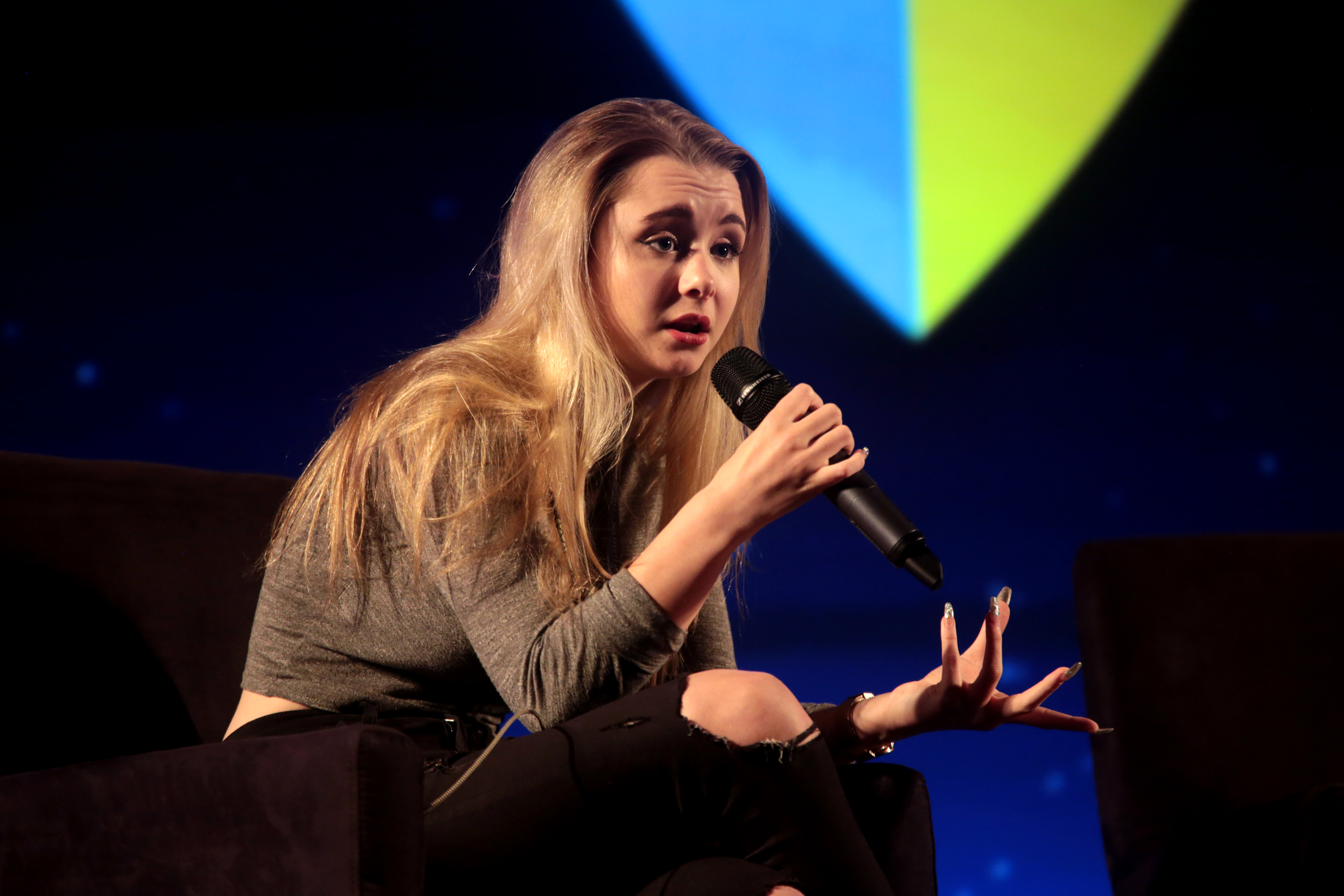 Kerry Ingram speaking at the 2017 Con of Thrones at the Gaylord Opryland Resort & Convention Center in Nashville, Tennessee.